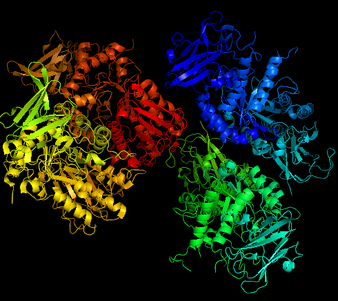 an image of the E. Coli debranching enzyme